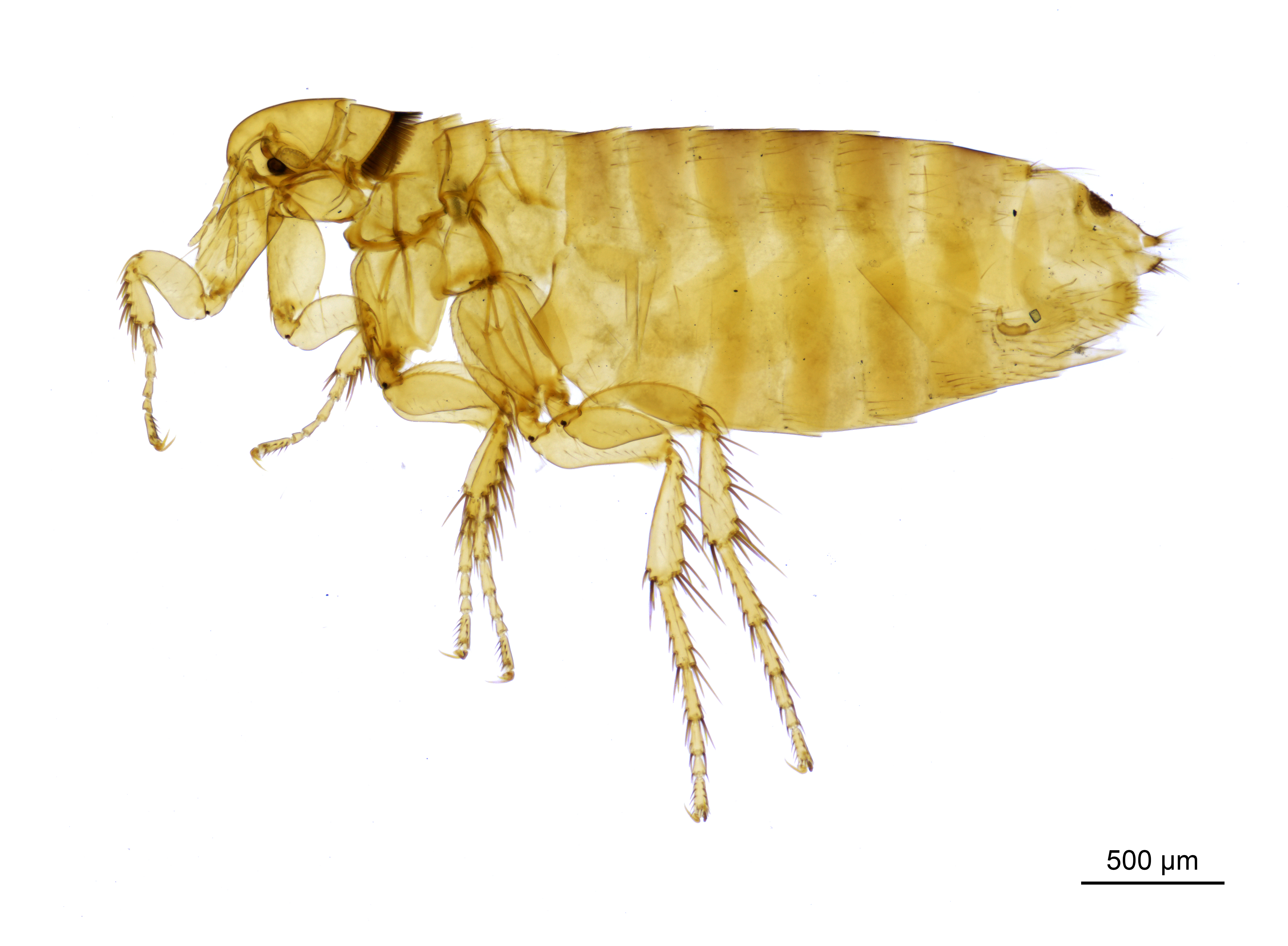 A slide image of the housemartin flea - Ceratophyllus Ceratophyllus hirundinis (Curtis, 1826). A non-type female. Country of collection: United Kingdom. Year of collection: 1910.